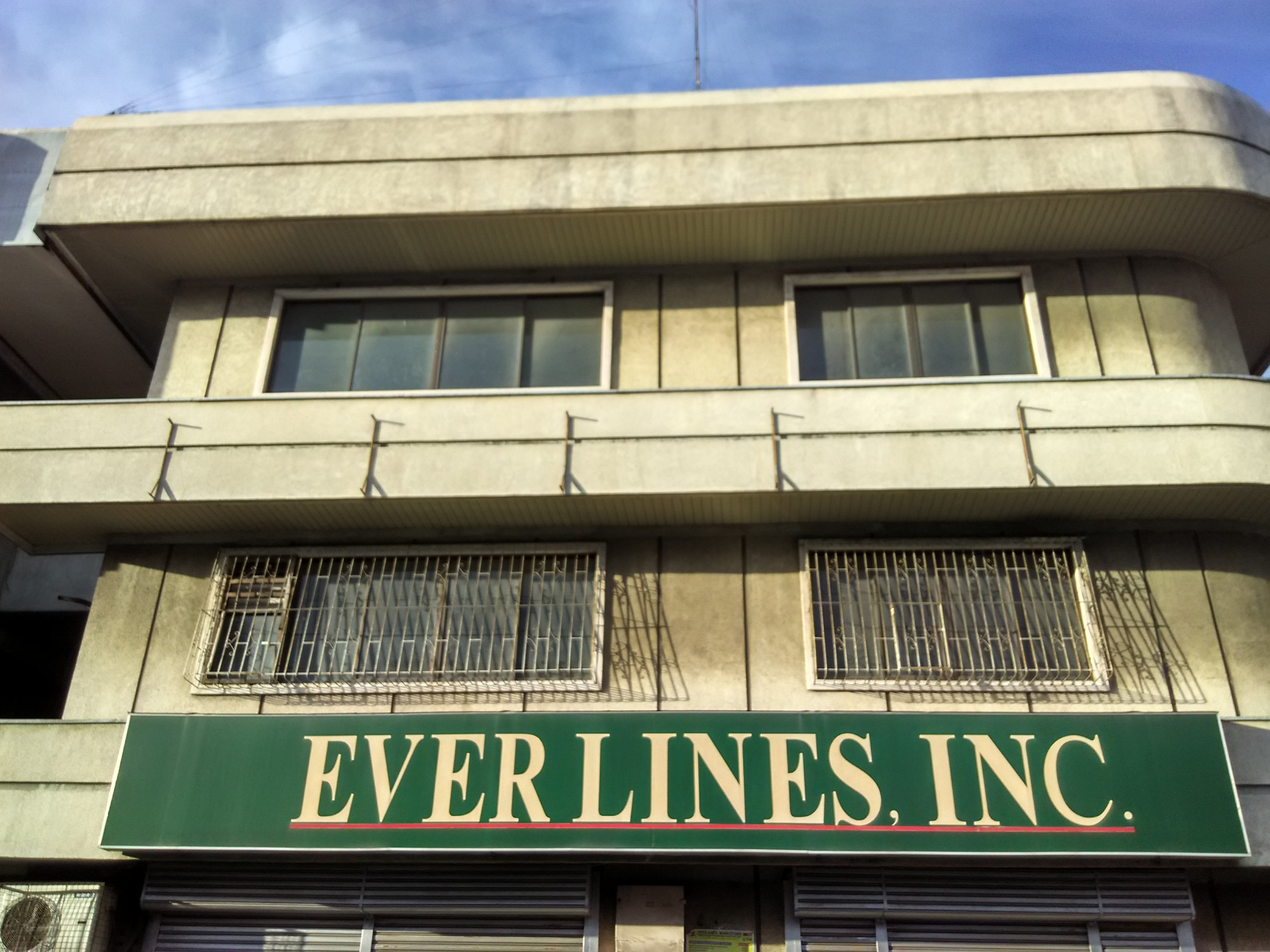 Ever Shipping Lines Headquarters at Narciso Valderossa St., Zamboanga City